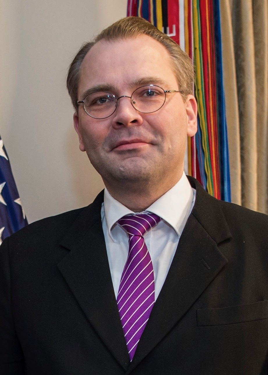 Secretary of Defense Jim Mattis hosts an enhanced honor cordon for Finland’s Minister of Defense Jussi Niinisto at the Pentagon in Washington, D.C., March 21, 2016. (DOD photo by Air Force Tech. Sgt. Brigitte N. Brantley)